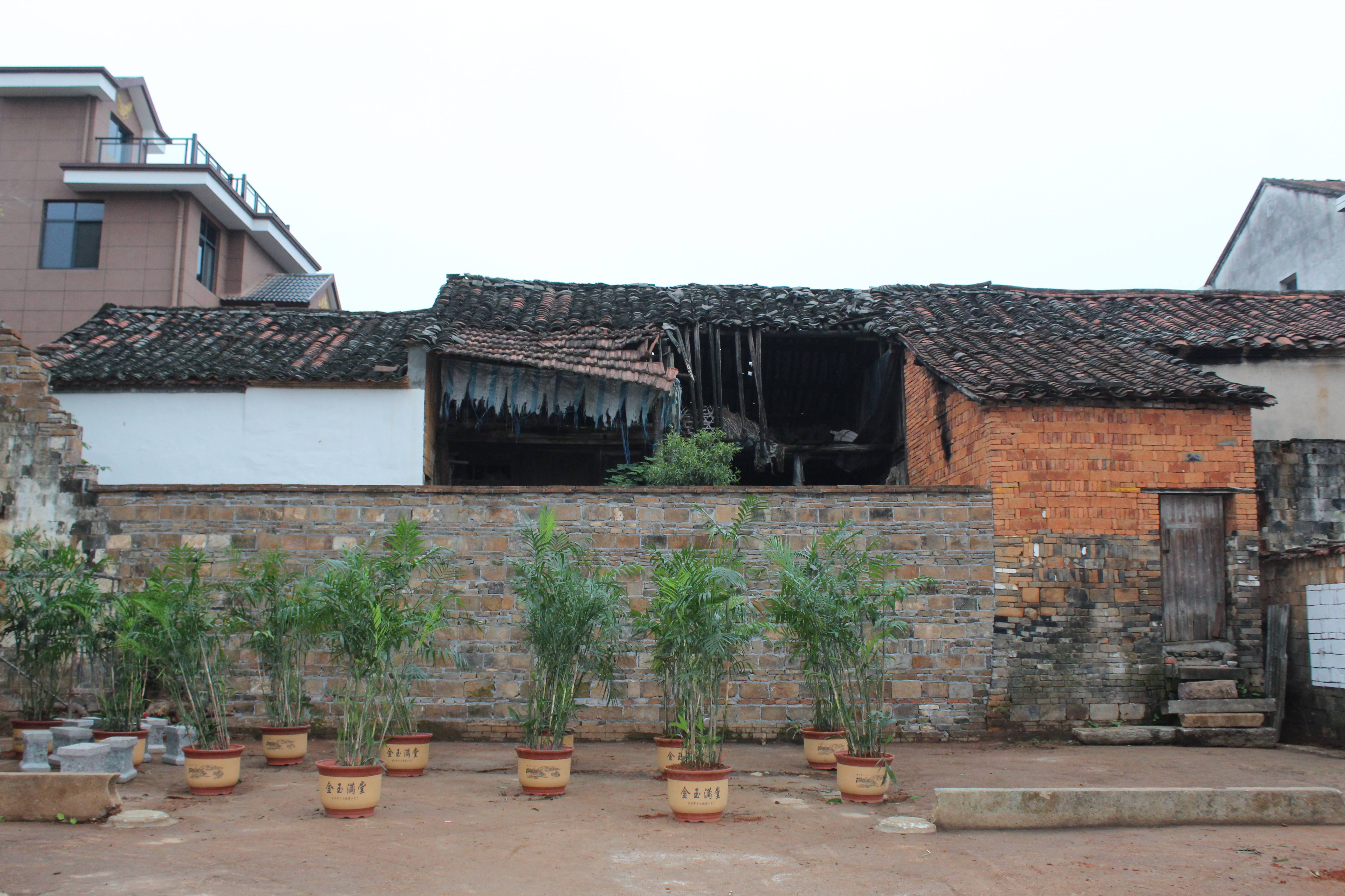 Photo of a historical building in Shangjing